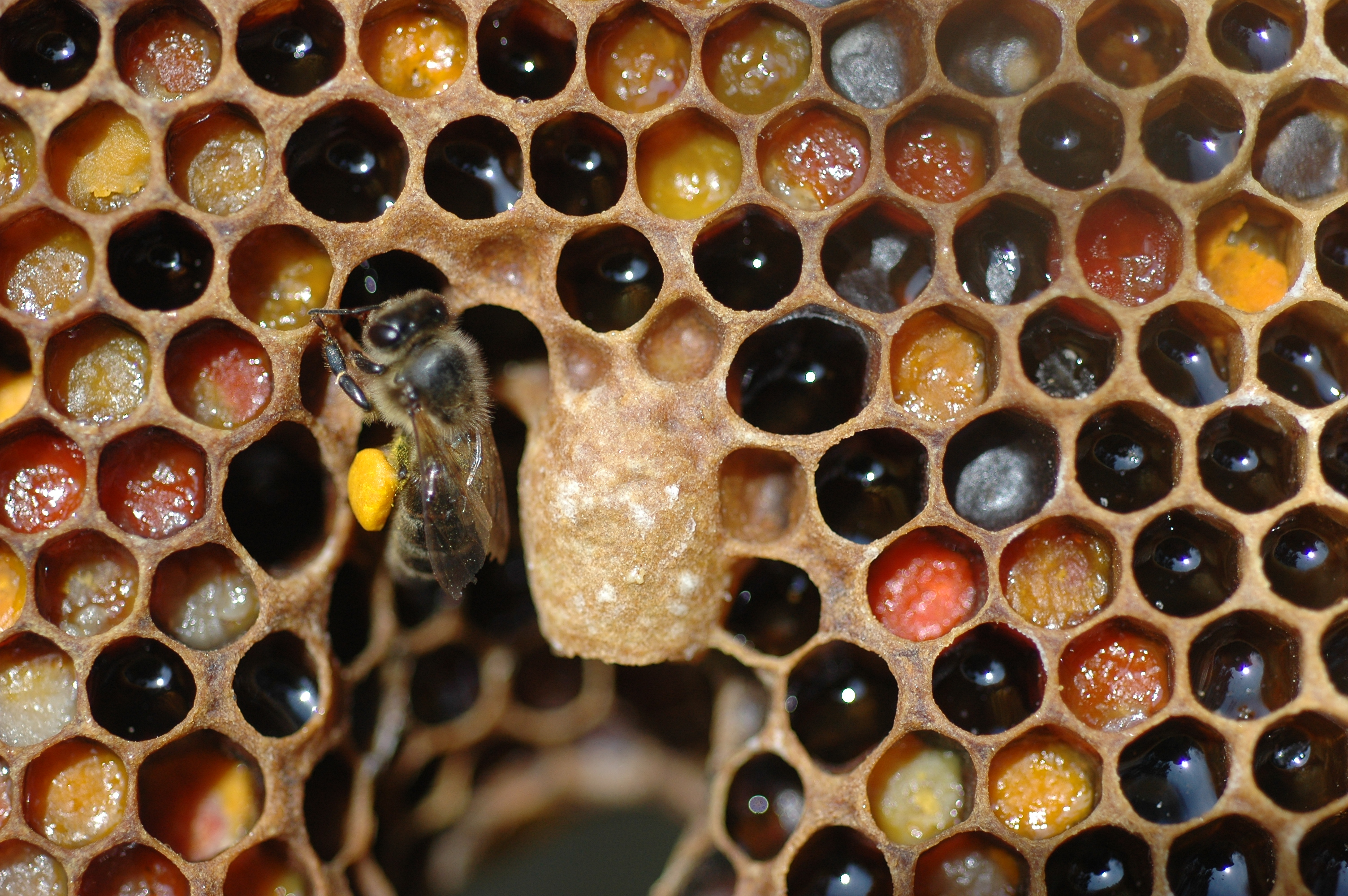 A worker bee returns to the colony with its load of pollen.